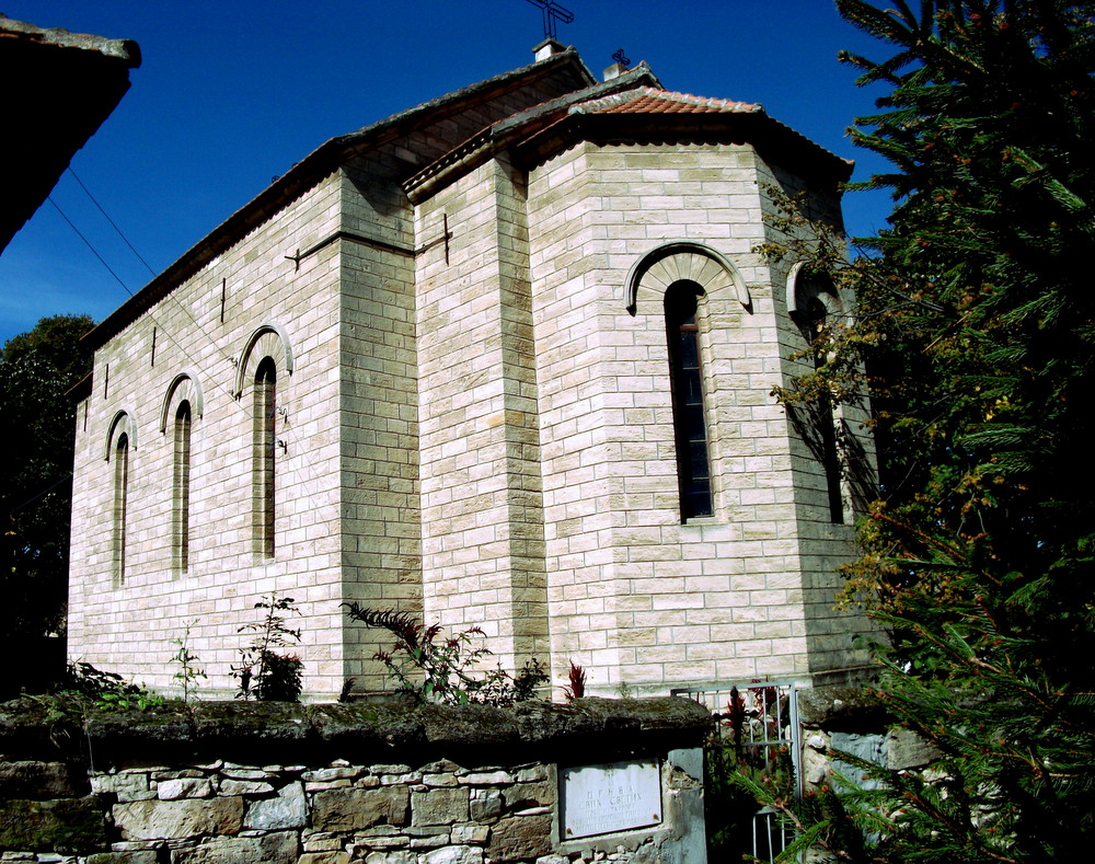 Svi sveti (All Saints) church, Brusnik, Serbia